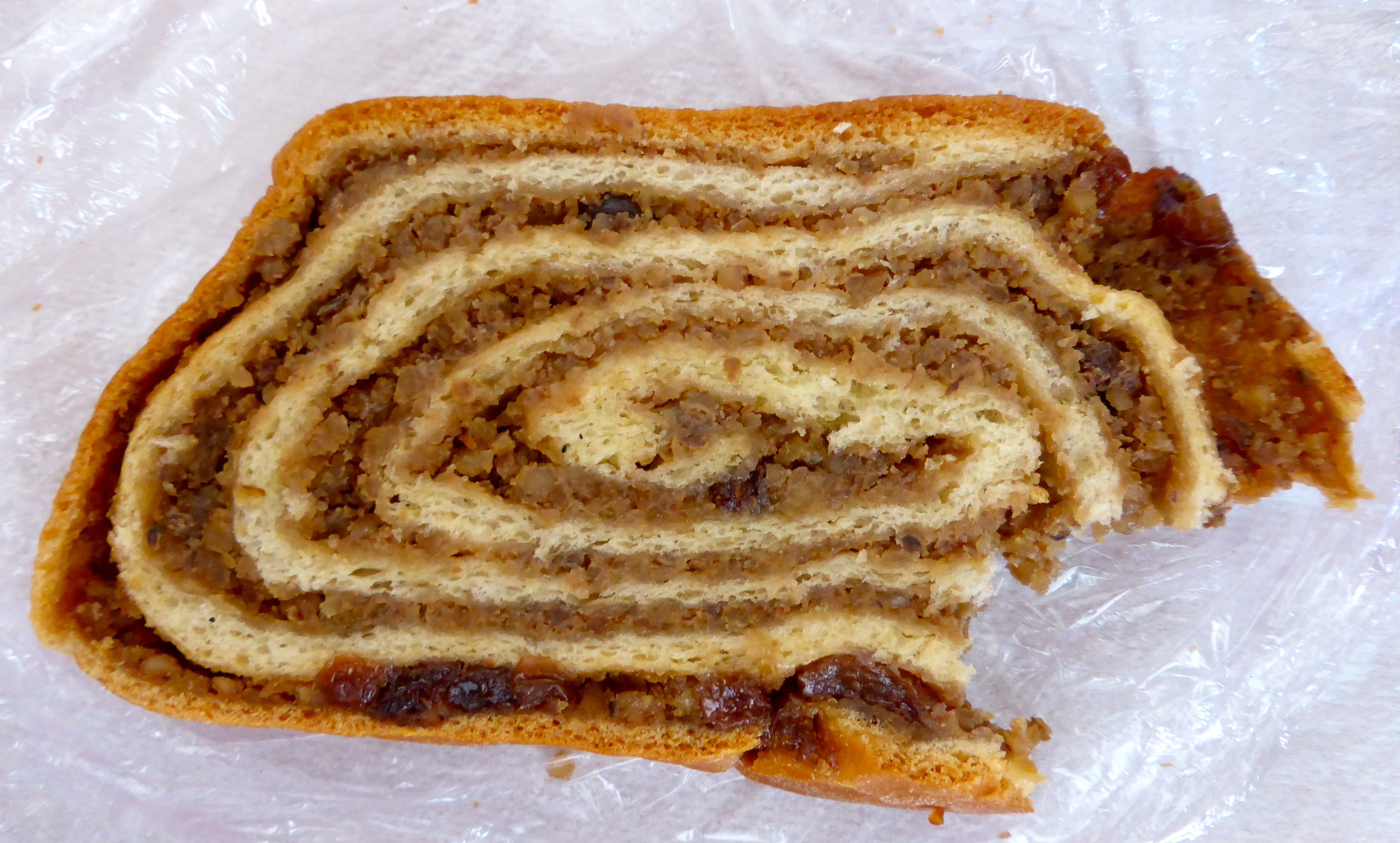 Traditional Slovenian pastry which is made spreading chopped nuts, honey, butter, cinnamon and raisins onto a yeast bread, rolling it into a spiral, and baking. I bought this slice at a tiny bakery near the Dragon Bridge, adjacent to the city market.